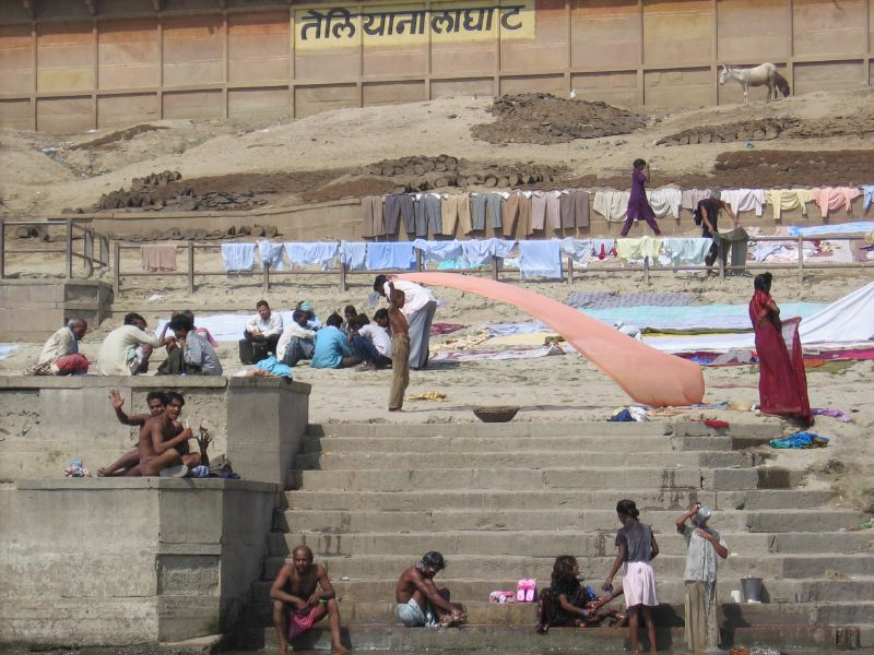 People drying clothes, getting dressed or washing by the steps down to a river (Ganges?) in India.photos from john 541-1